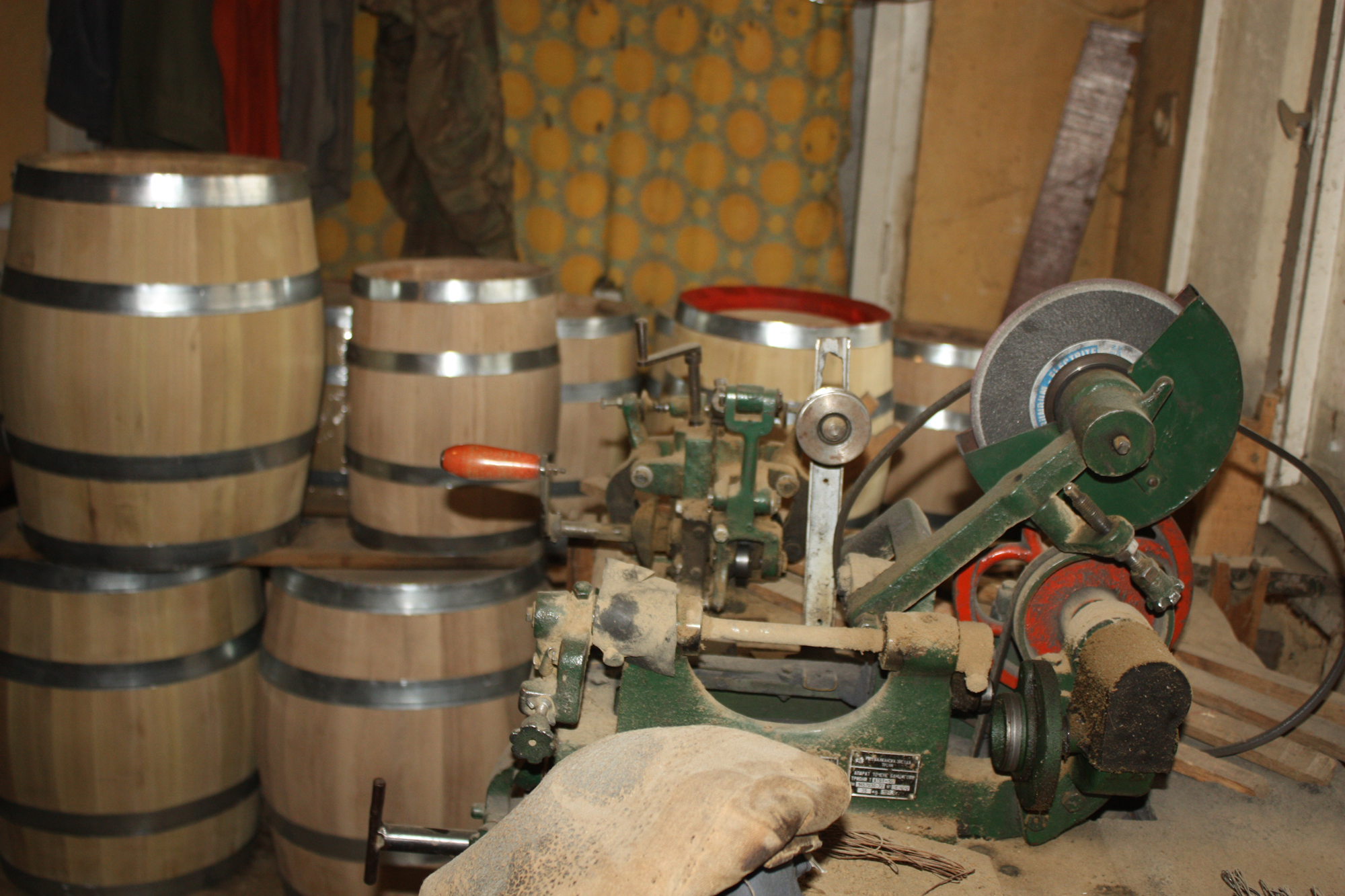 Cooperage shop in Vrachesh, Bulgaria